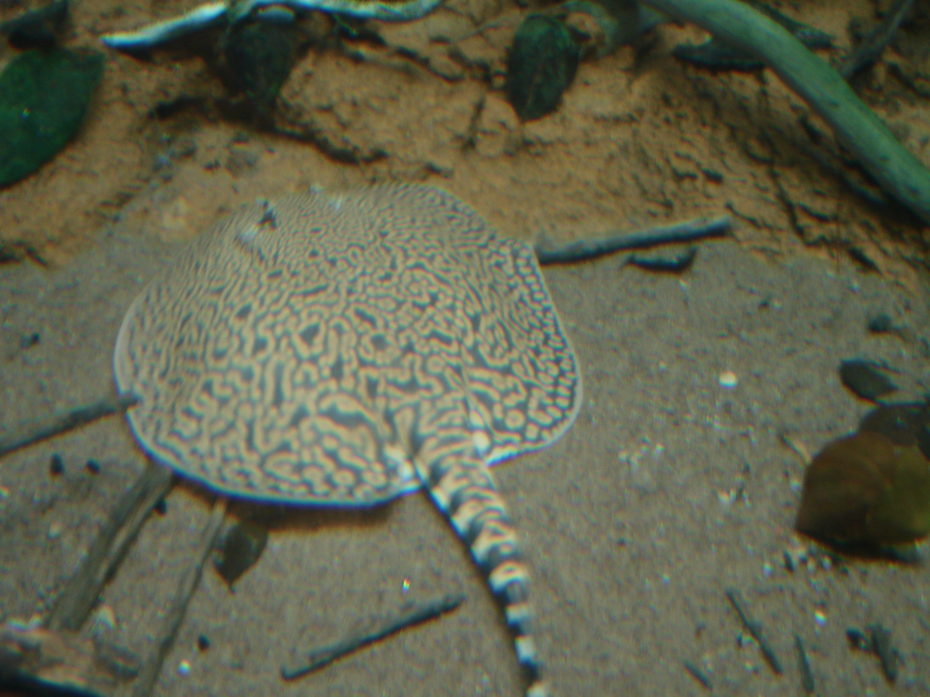 Tiger ray (Potamotrygon tigrina) at the Shedd Aquarium